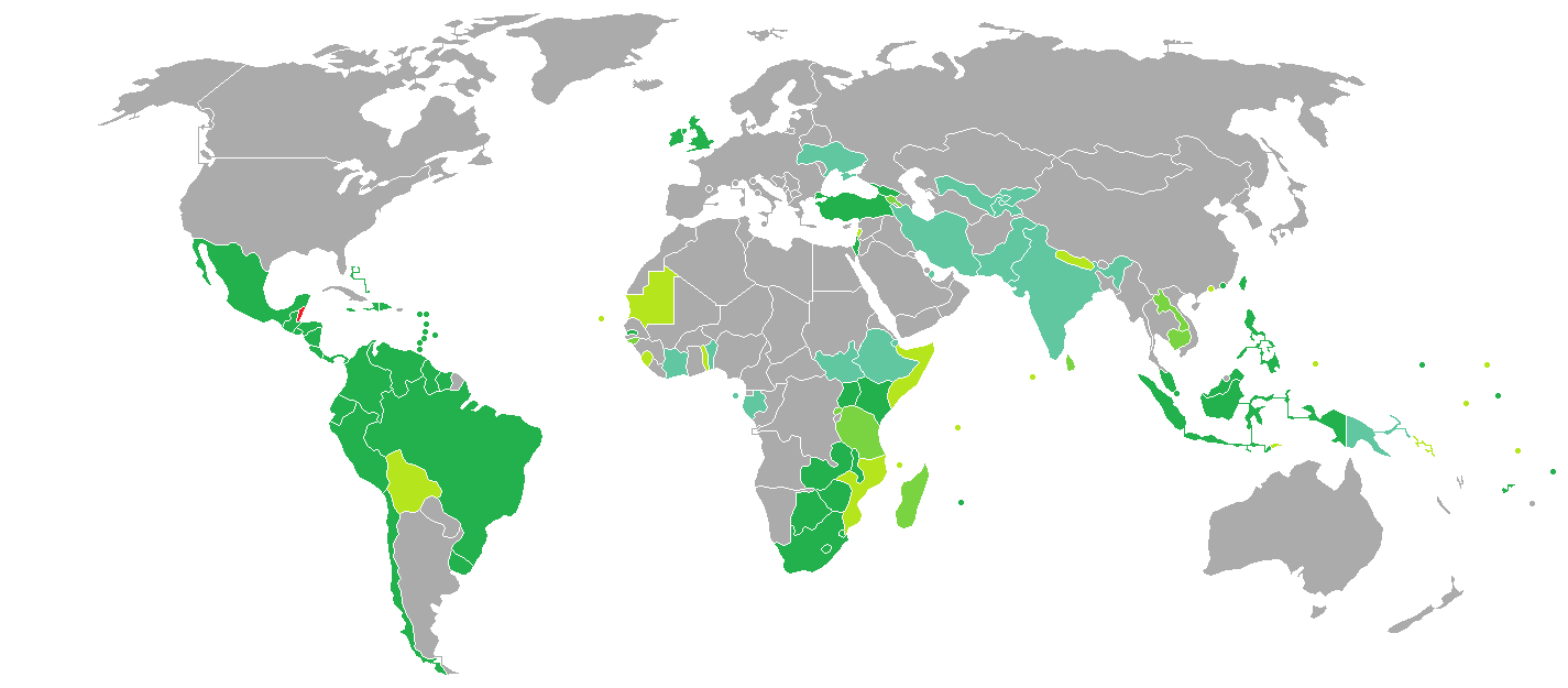 Visa requirements for Belizean citizens Belize Visa free access Visa on arrival eVisa Visa available both on arrival or online Visa required